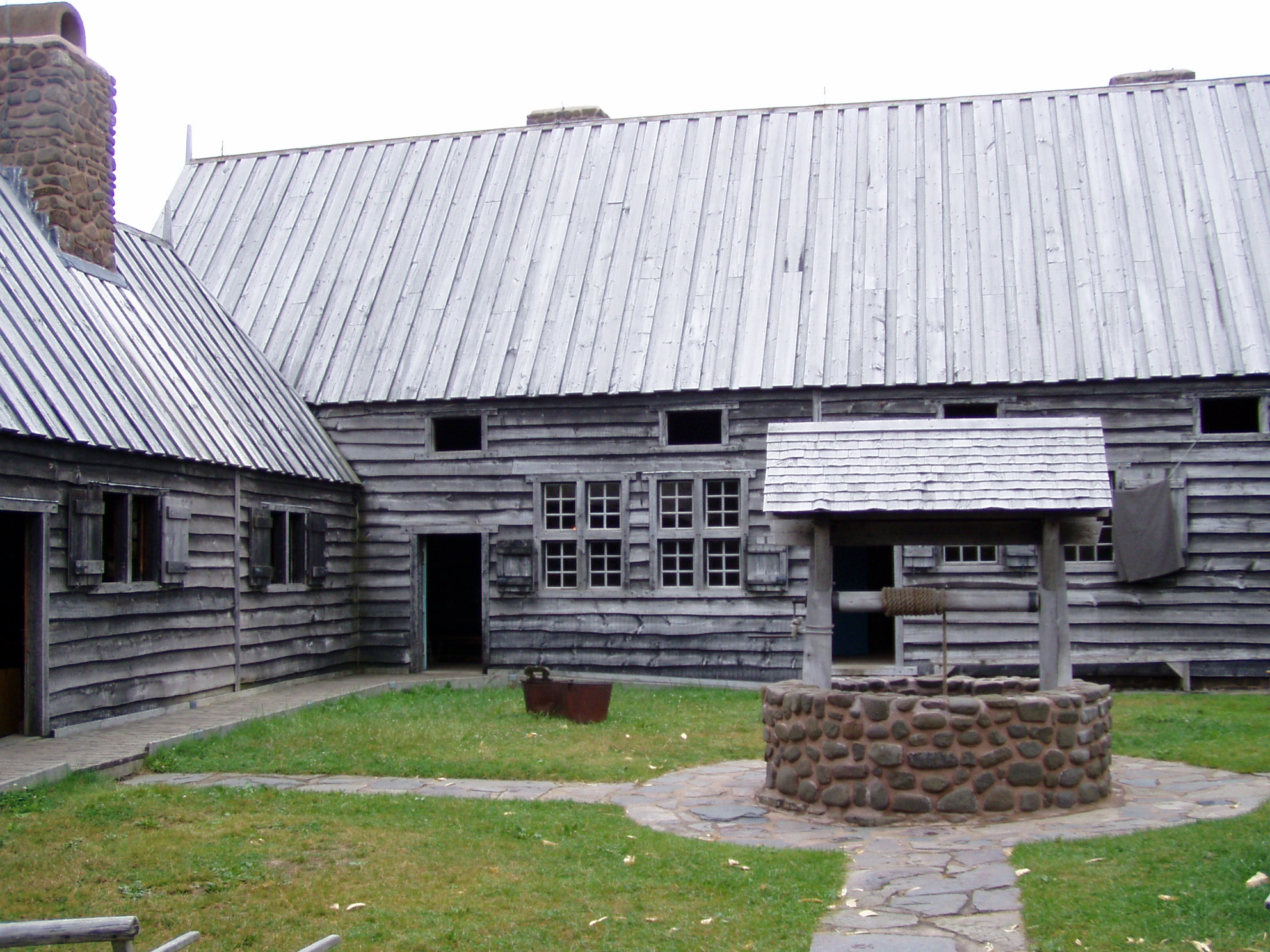 Replica of Champlain's habitation at the Port-Royal National Historic Site of Canada in Nova-Scotia. Photo taken in July 2004 by myself, Danielle Langlois.